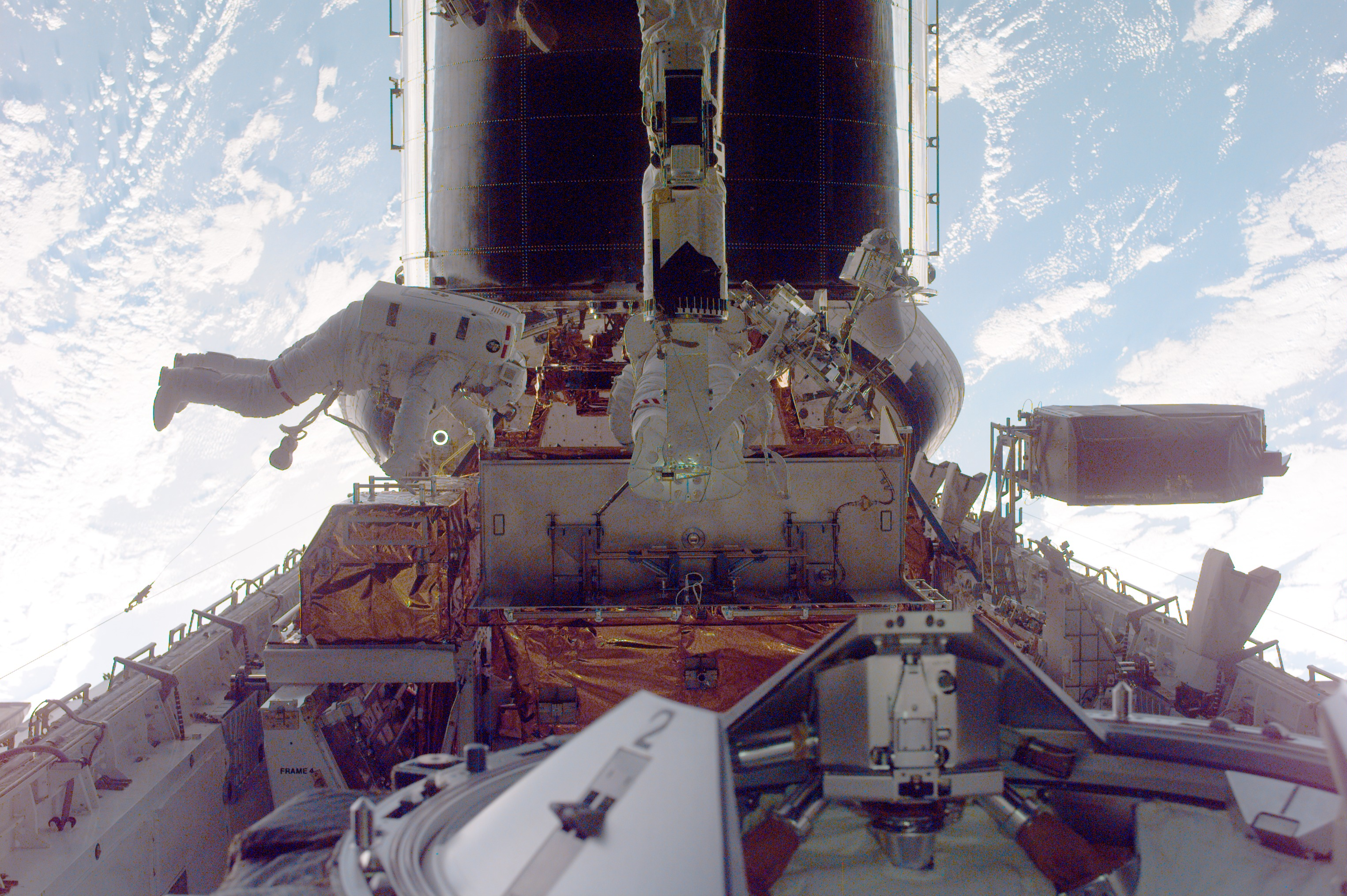 Astronauts C. Michael Foale (left) and Claude Nicollier hover above Discovery's aft cargo bay during their shared space walk to perform servicing tasks on the Hubble Space Telescope (HST). The photo was taken with an electronic still camera (ESC).